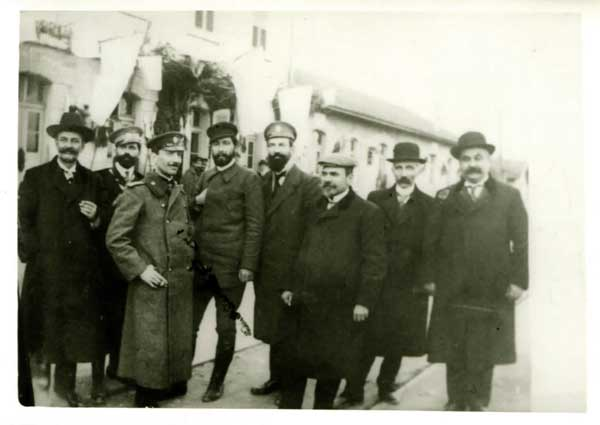 From left to right: Gyorche Petrov, unknown, unknown, Todor Alexandrov, unknown, Andrey Lyapchev, Simeon Radev and Stamatov